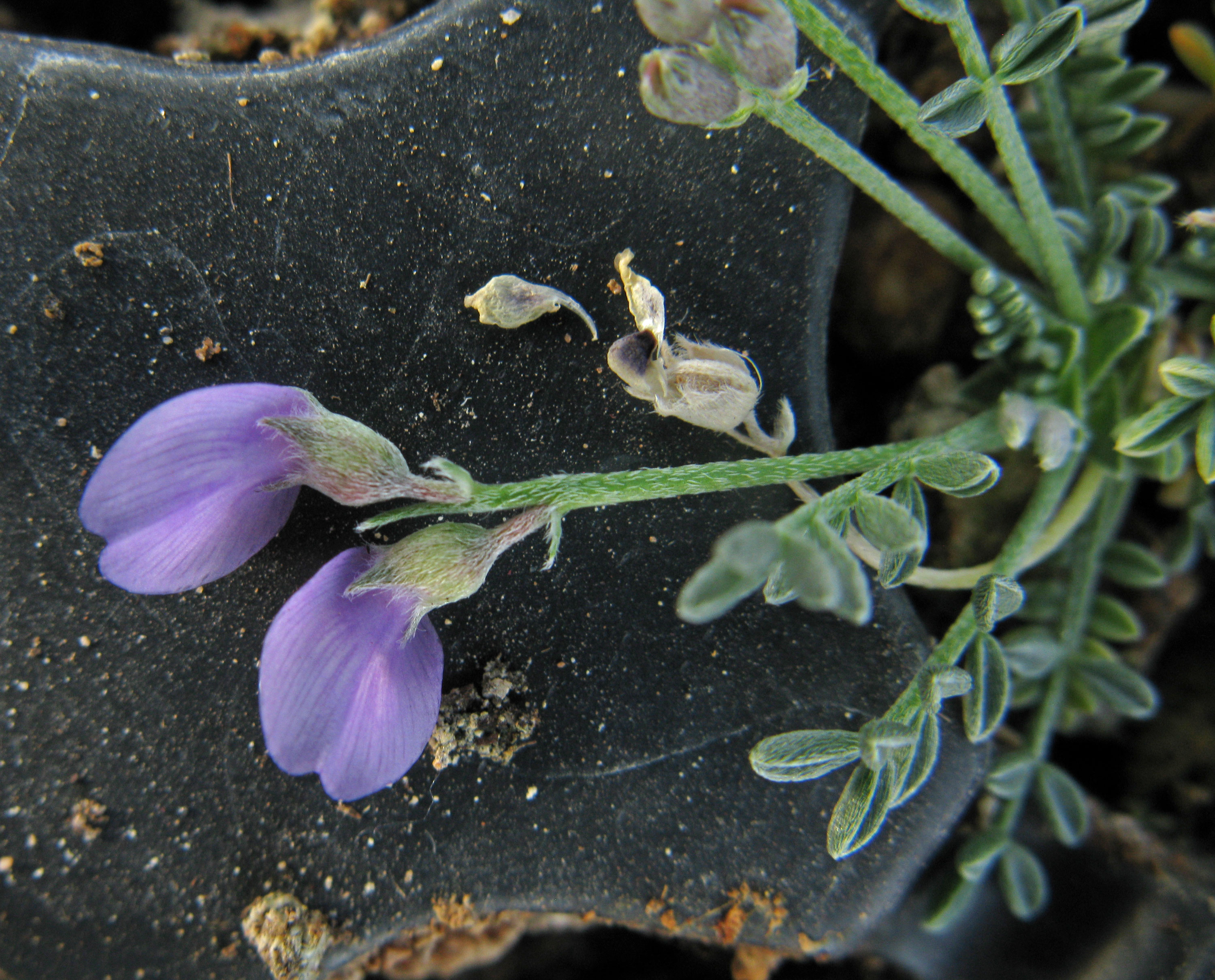 Grand Canyon’s rarest plant, sentry milk-vetch (Astragalus cremnophylax var. cremnophylax), grows at only three locations on the South Rim.